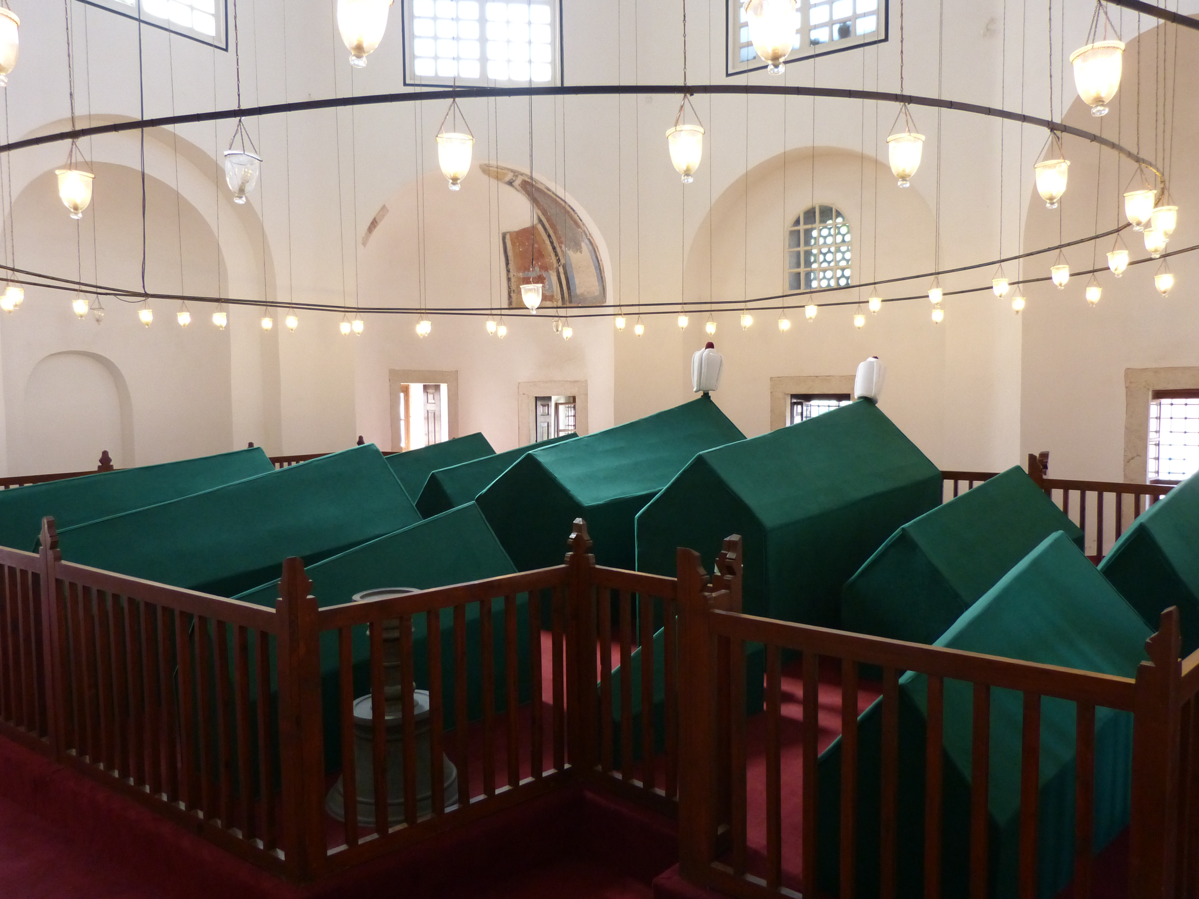 Türbe (Tomb) of Sultan Mustafa I and Ibrahim I